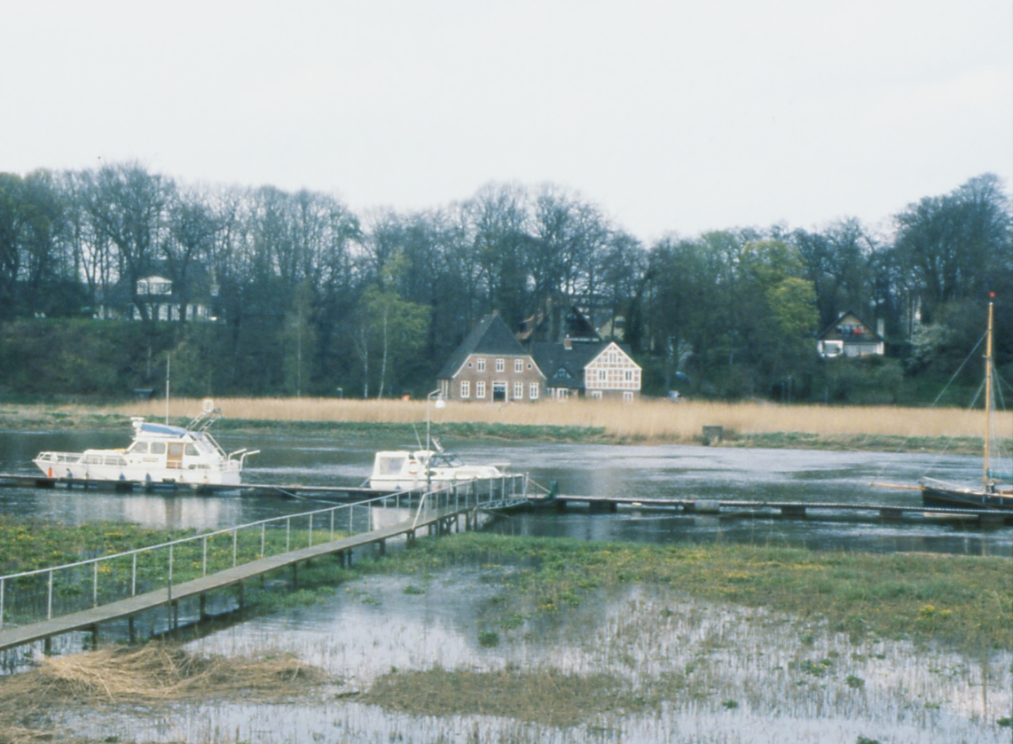 View from the Lesum dyke of the Werderland over the River Lesum towards the north of the high bank at Bremen-Nord. On the southern bank the reeds have been harvested. Lower Saxony, Germany